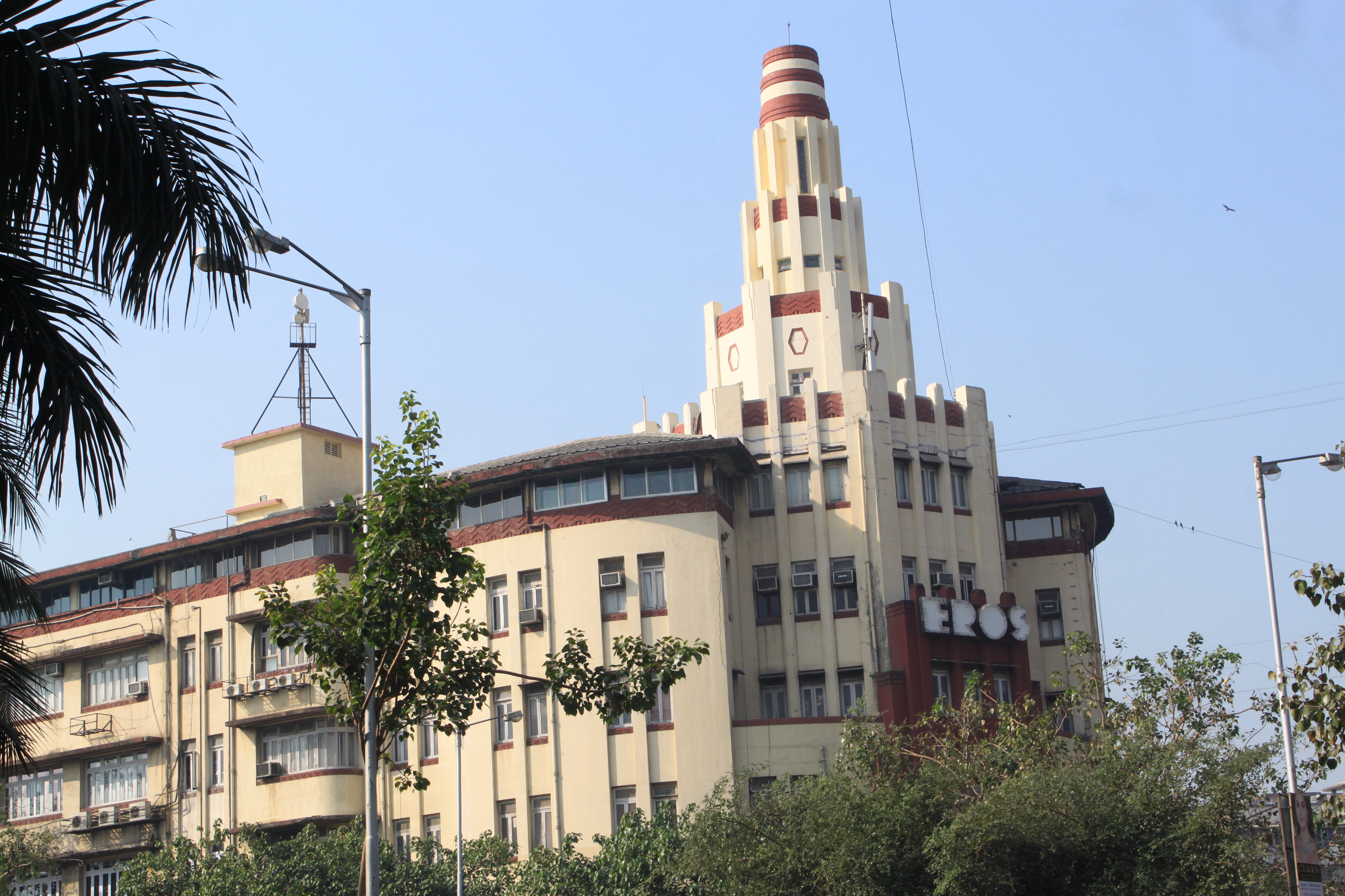 EROS Theatre, Mumbai